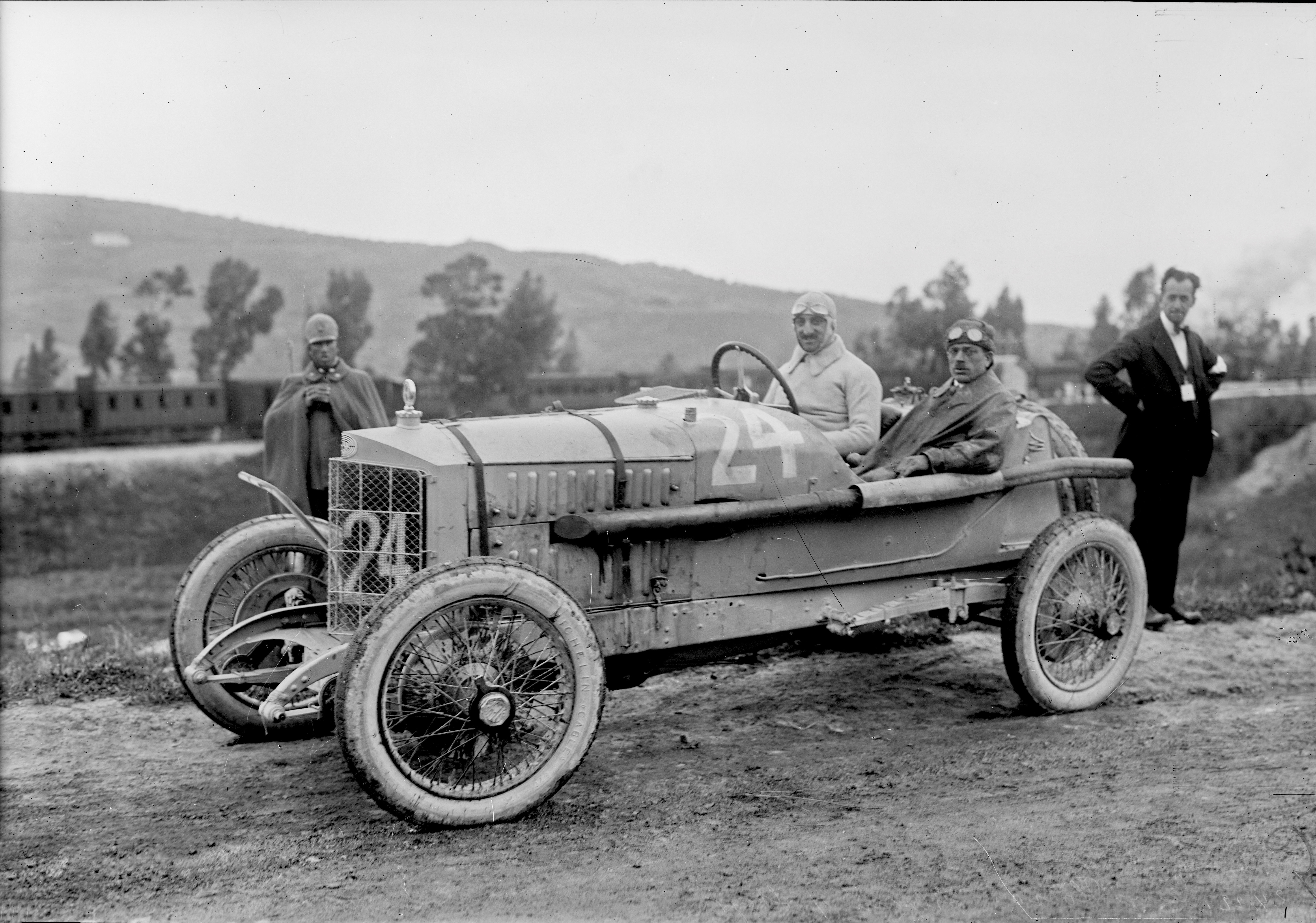 Eugenio Silvani in his Steyr at the 1922 Targa Florio.